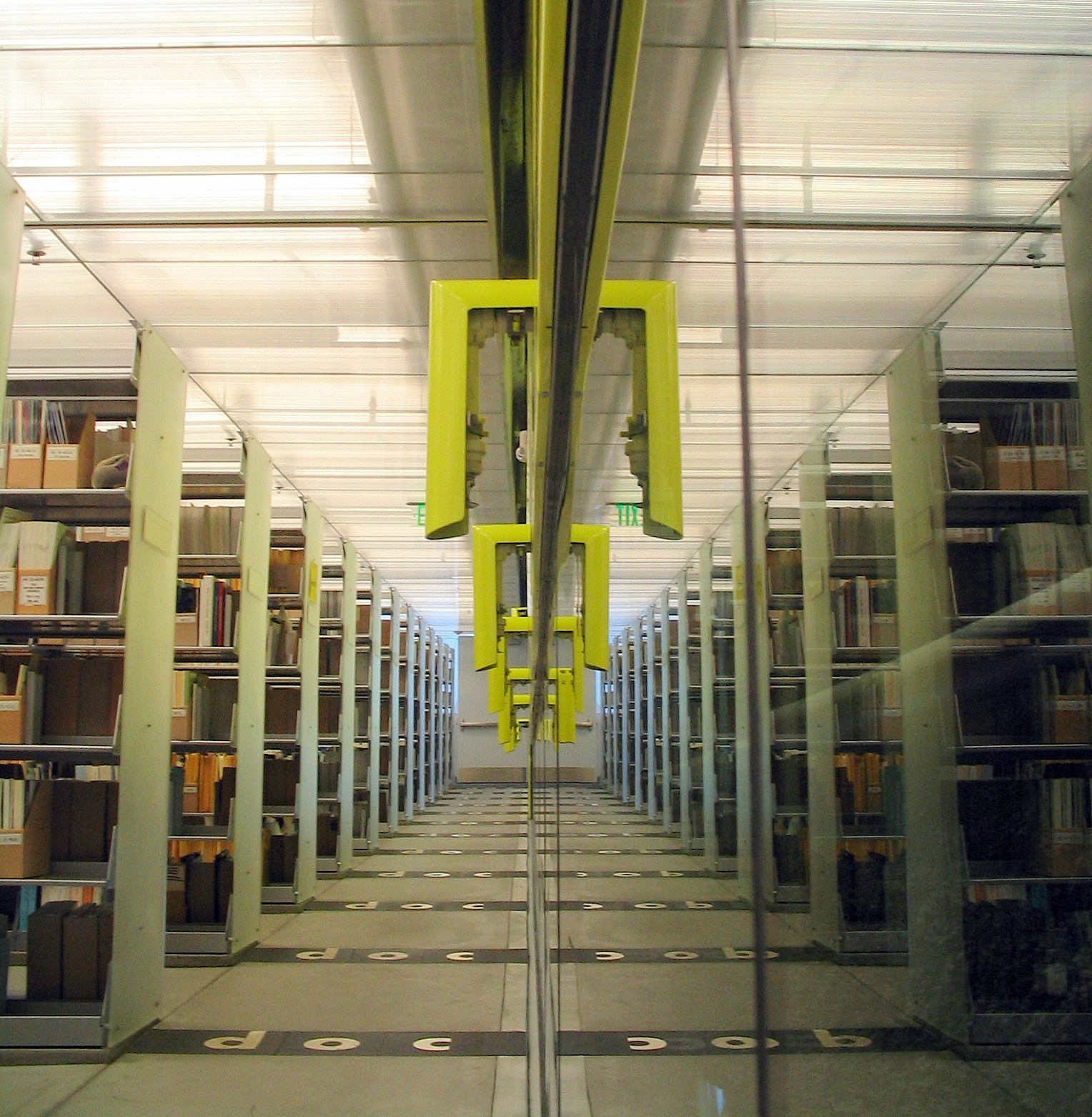 Seattle Central LibraryGlass Wall